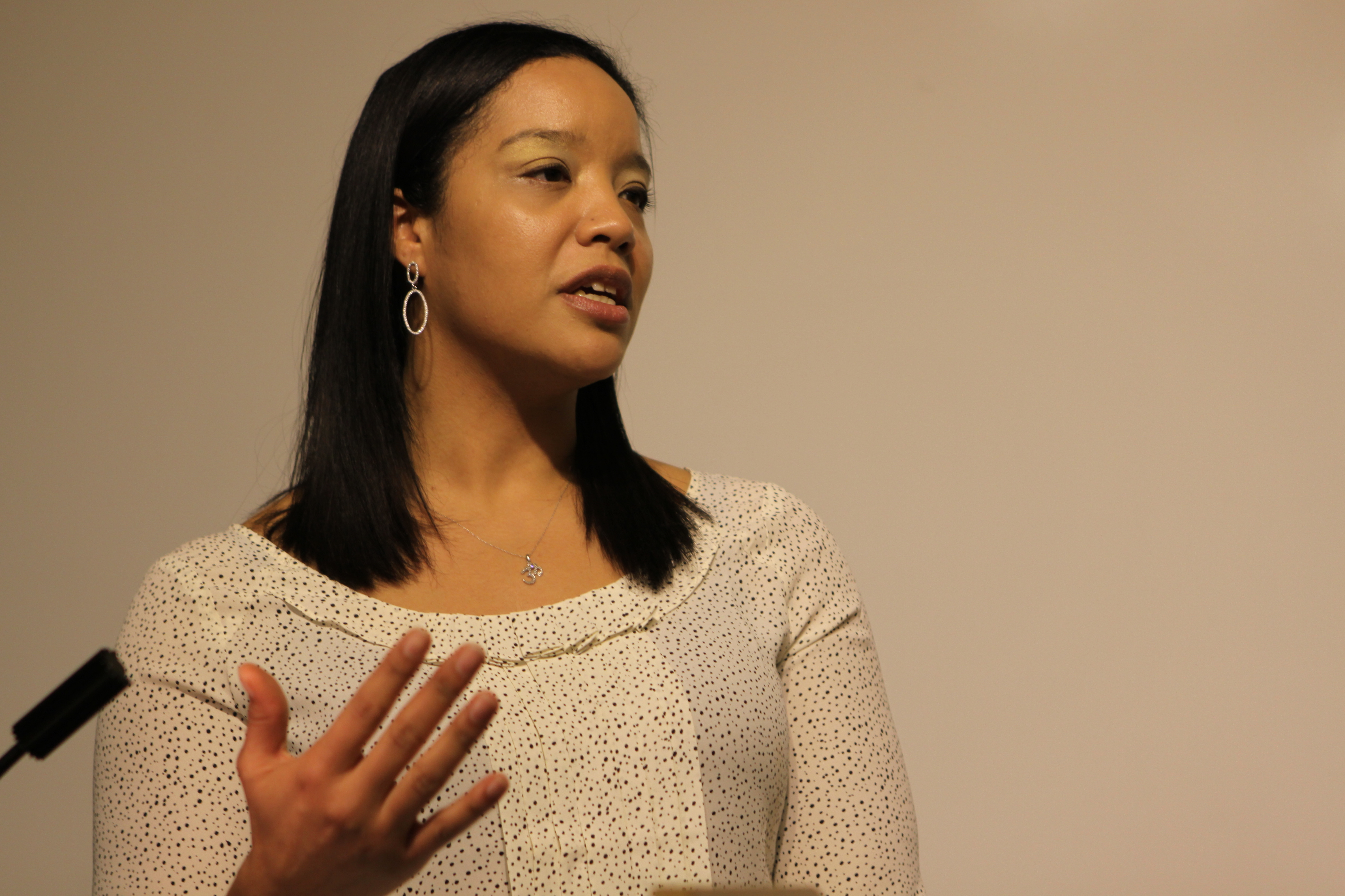 Kathryn T. Gines, Professor of Philosophy at Penn State University speaking at the University of San Francisco Feb 21, 2014